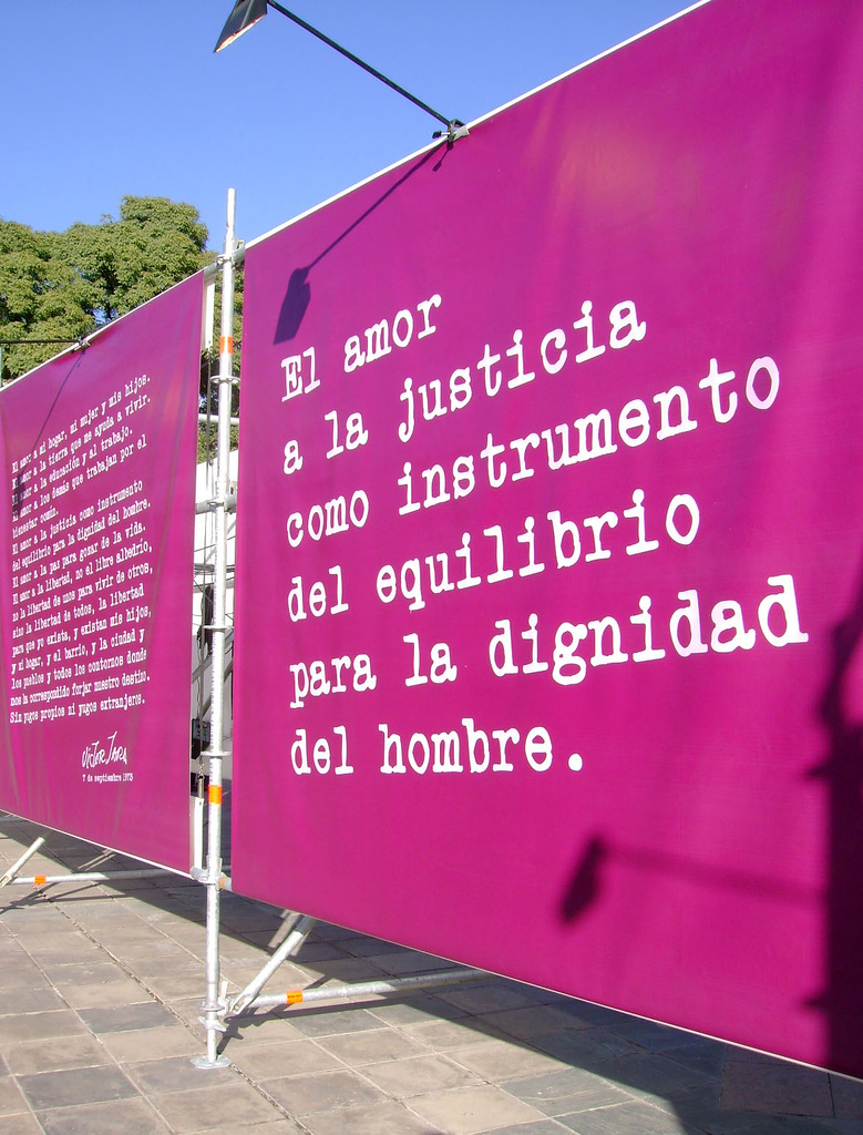 Love to justice as the instrument of equilibrium for man's dignity. Quote by Victor Jara. Localización / Location: Plaza Independencia